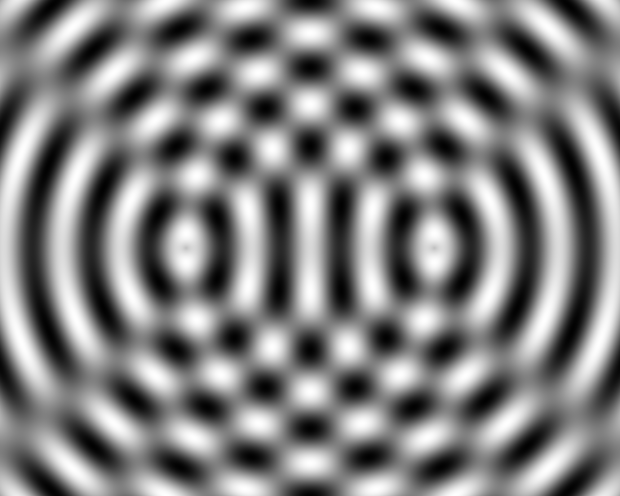 two interferring waves, generated with a selfwritten program